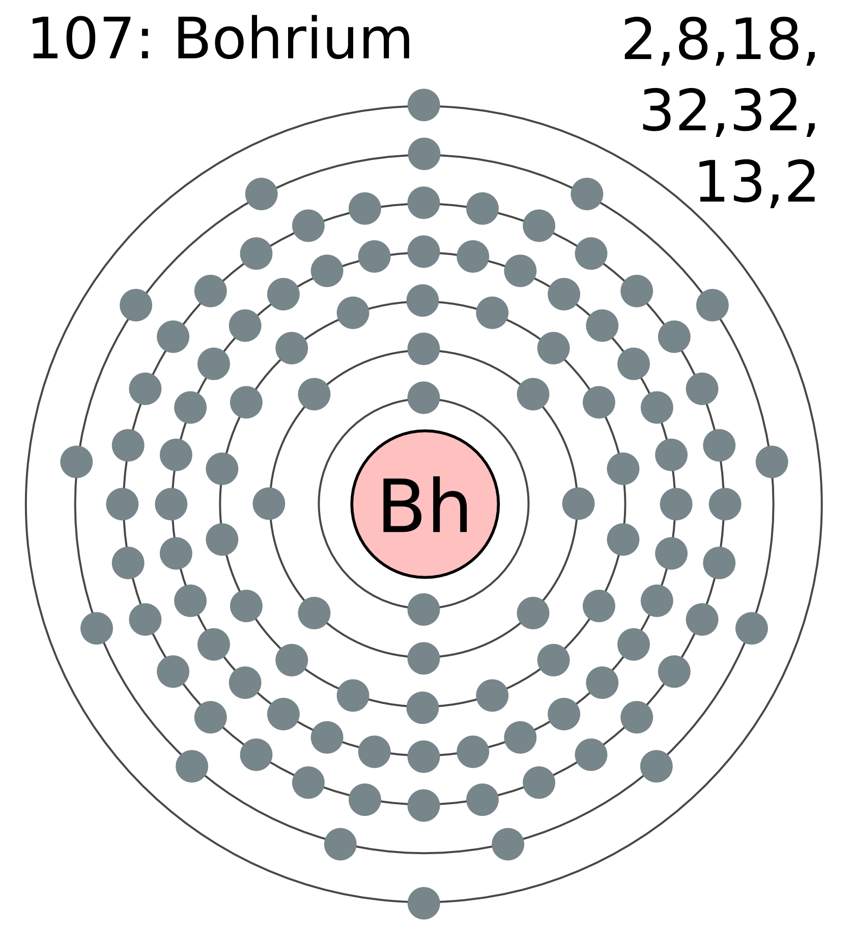 Electron shell diagram for Bohrium, the 107th element in the periodic table of elements.